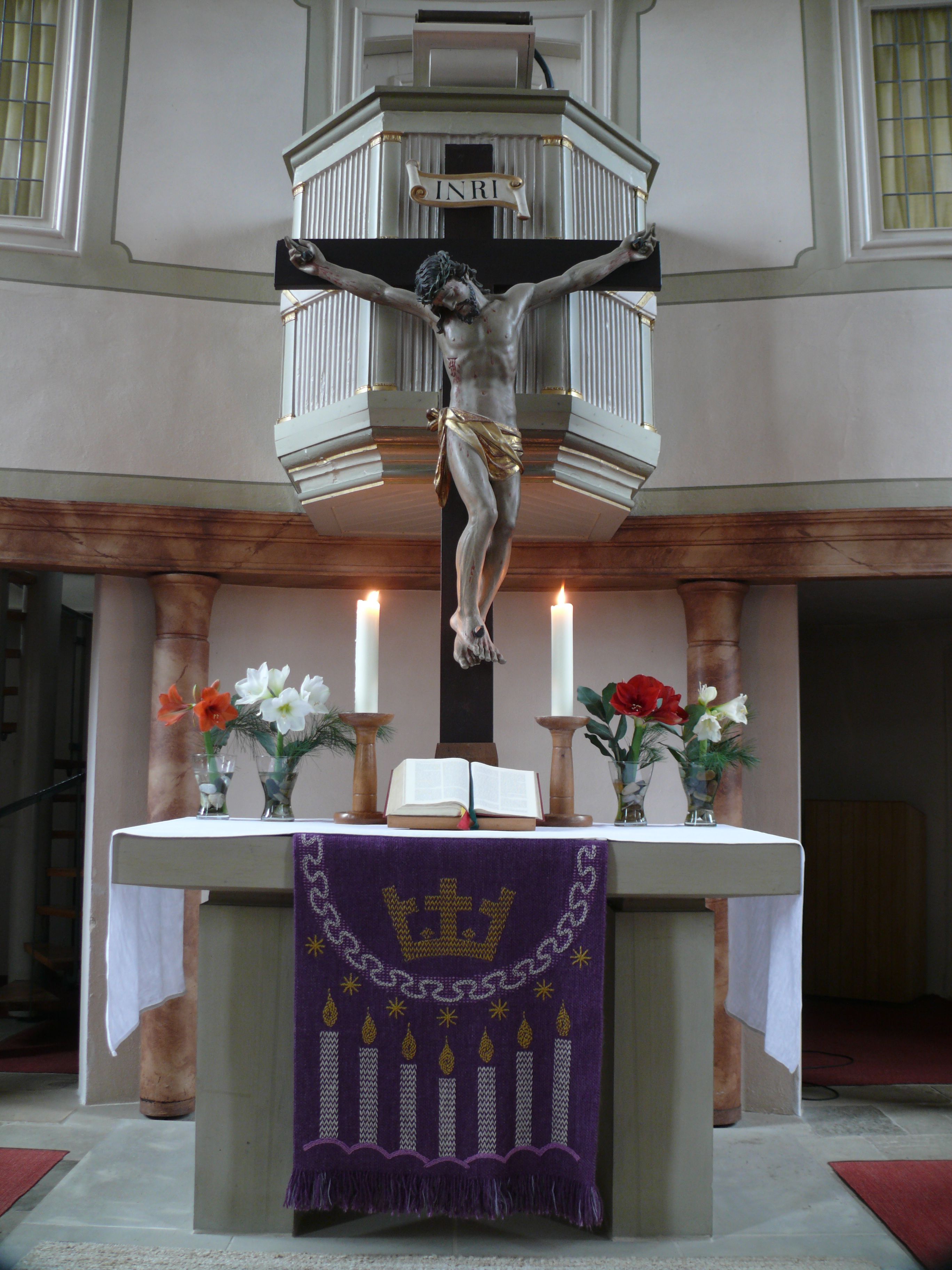 Protestant church in Bonfeld (a district of Bad Rappenau, Germany): altar, crucifix, and pulpit with decorative flowers right before Christmas 2013.